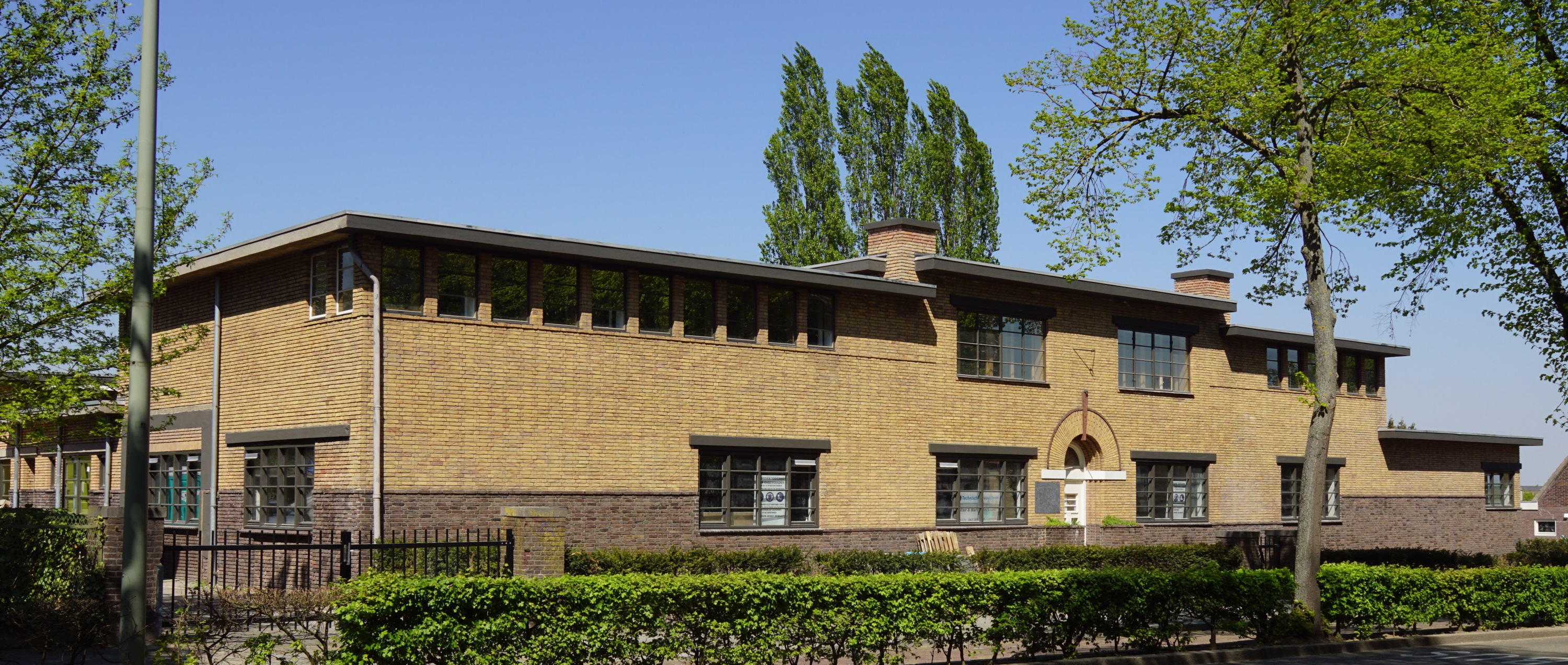 Statensingel 138, Maastricht, The Netherlands.